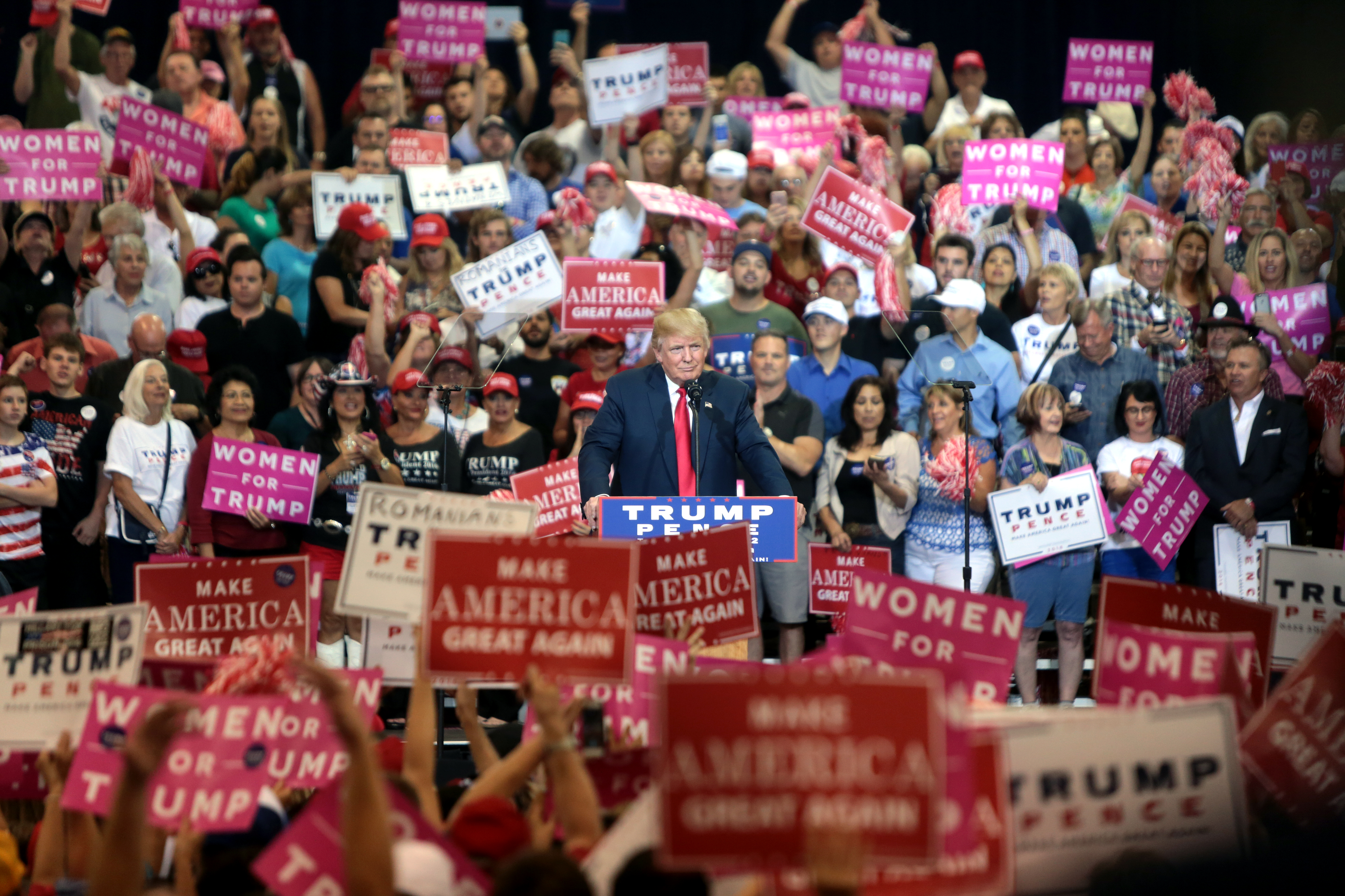 Donald Trump speaking with supporters at a campaign rally at the Phoenix Convention Center in Phoenix, Arizona.